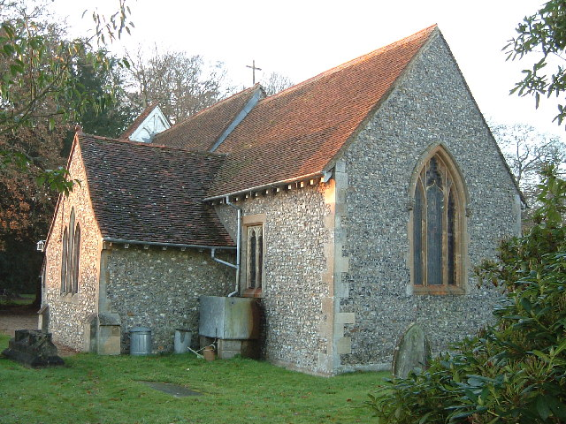 Church of England parish church of St Laurence, Cholesbury, Buckinghamshire: view from the south-east